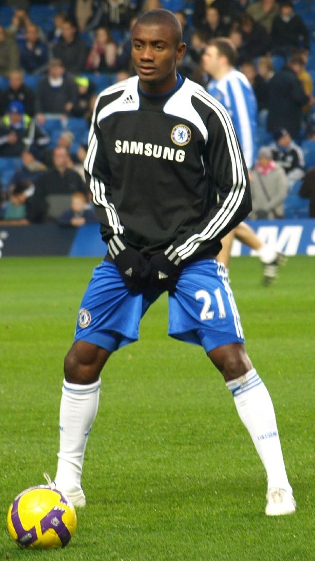 Salomon Kalou warming up for Chelsea